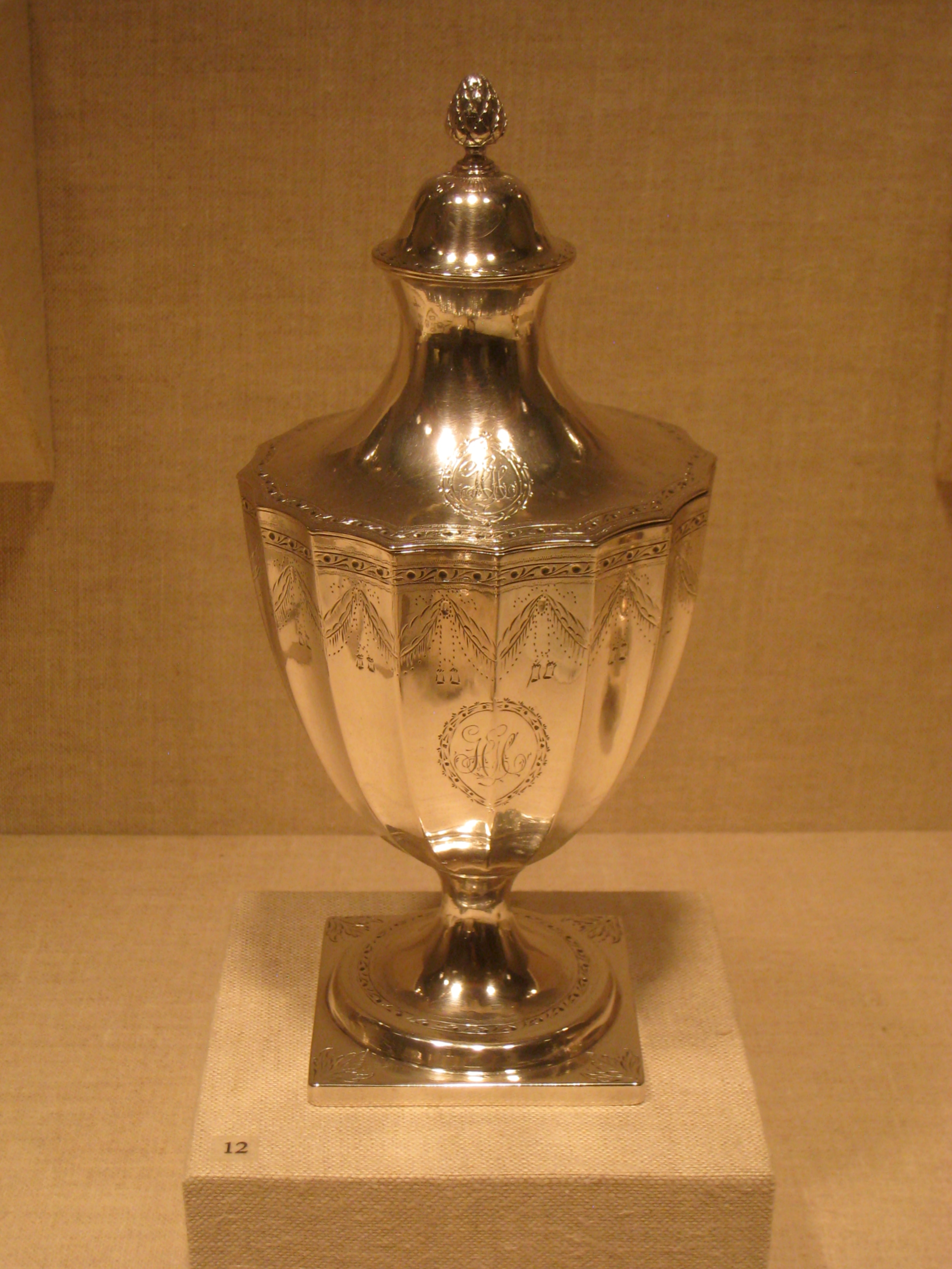 Sugar Urn, circa 1795, Paul Revere silver collection, Worcester Art Museum, Worcester, Massachusetts, USA. The museum permits photography and does not restrict usage of the photographs. Made by American silversmith Paul Revere (1735-1818).